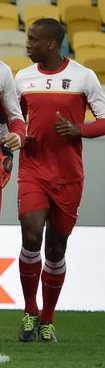 Willy Boly